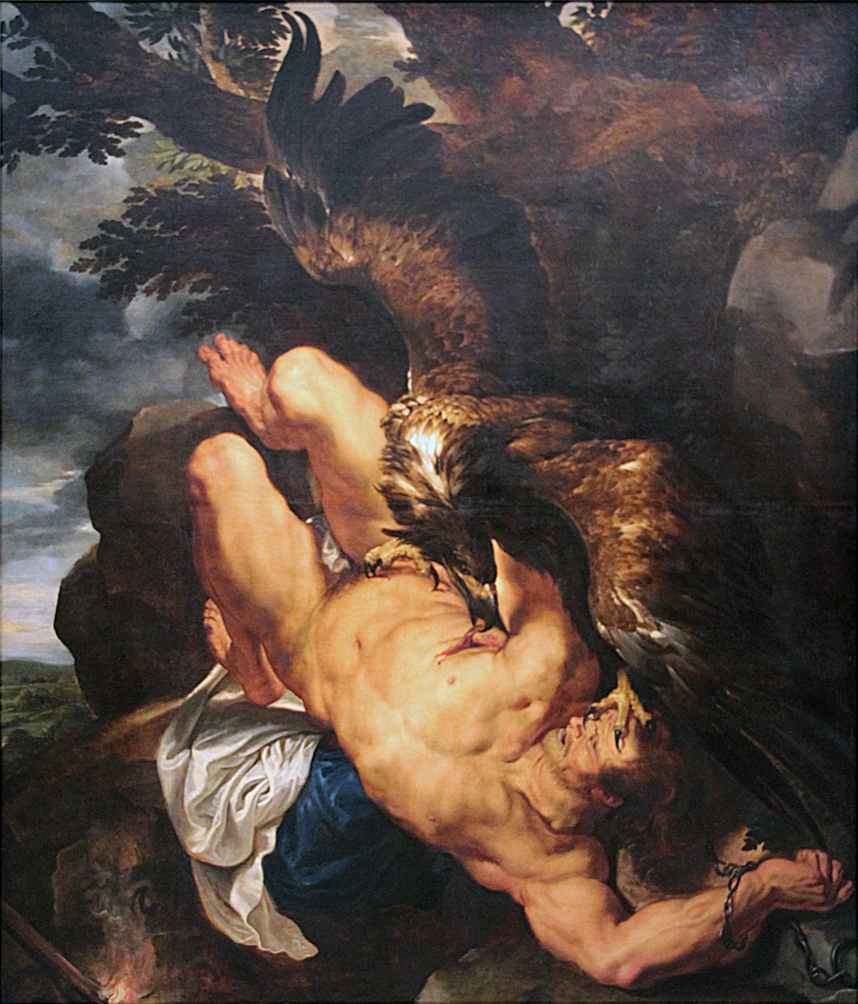 Oil on canvas paid by the Philadelphia Museum of Art, photographed during the exhibition " Rubens et son Temps " (Rubens and His Time) in the Louvre-Lens Museum.